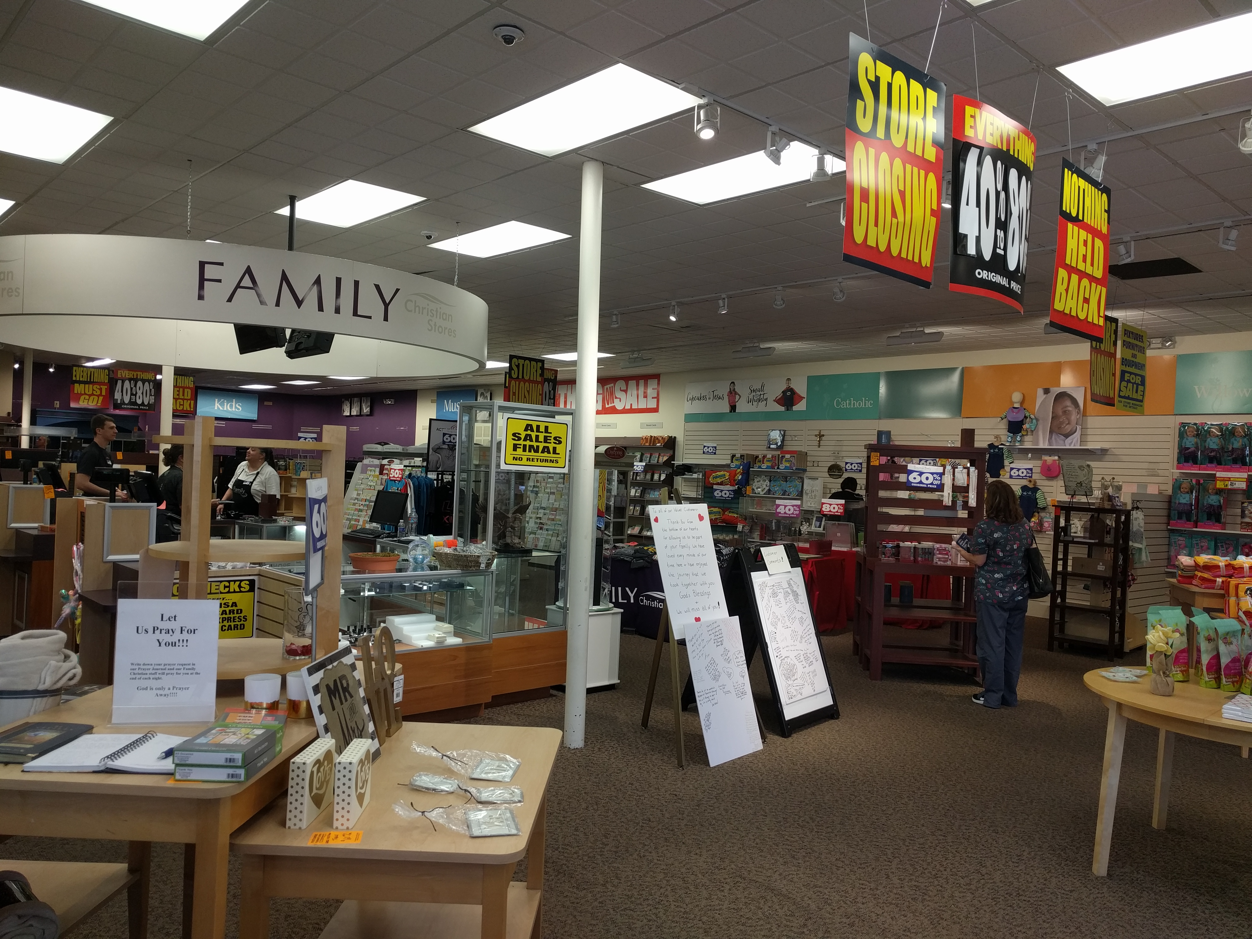 Simi Valley Family Christian Store in April 2017.